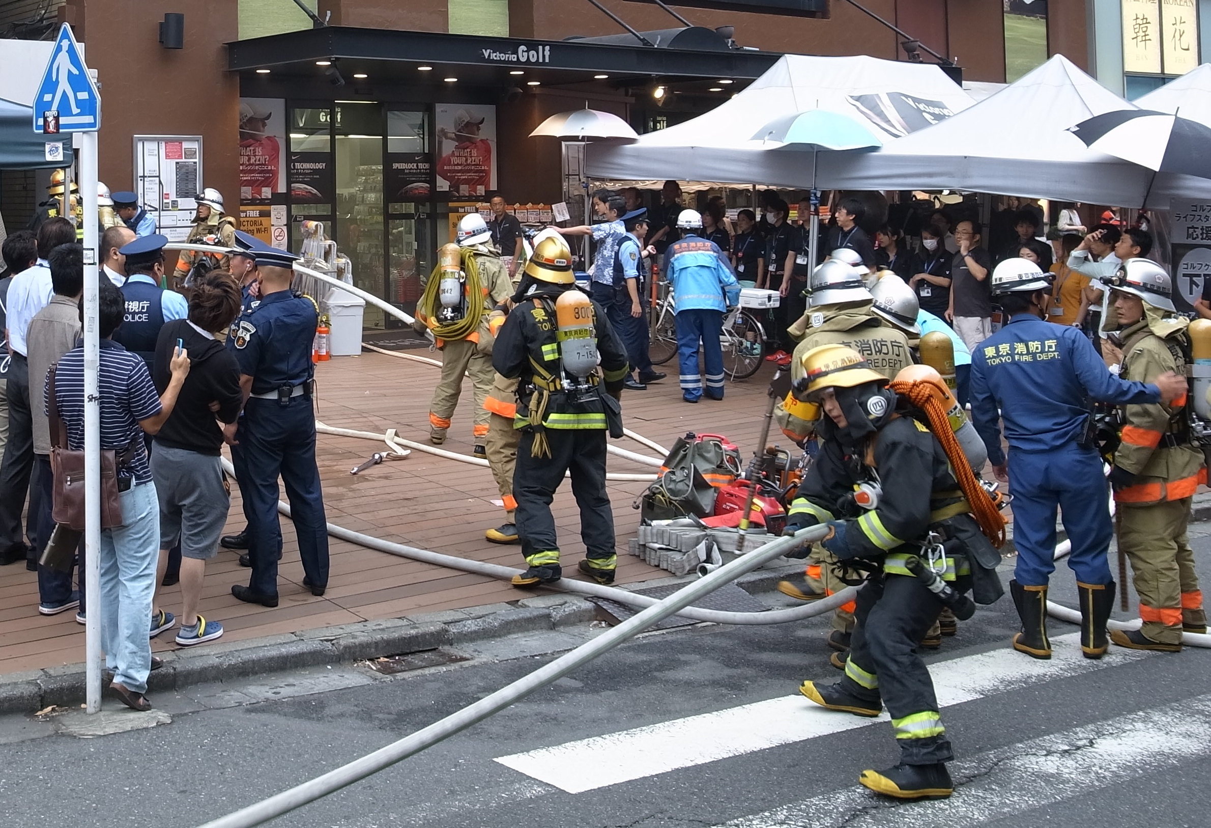 東京消防庁の隊員、新宿で Tokyo Fire Department fire fighters, in Shinjuku